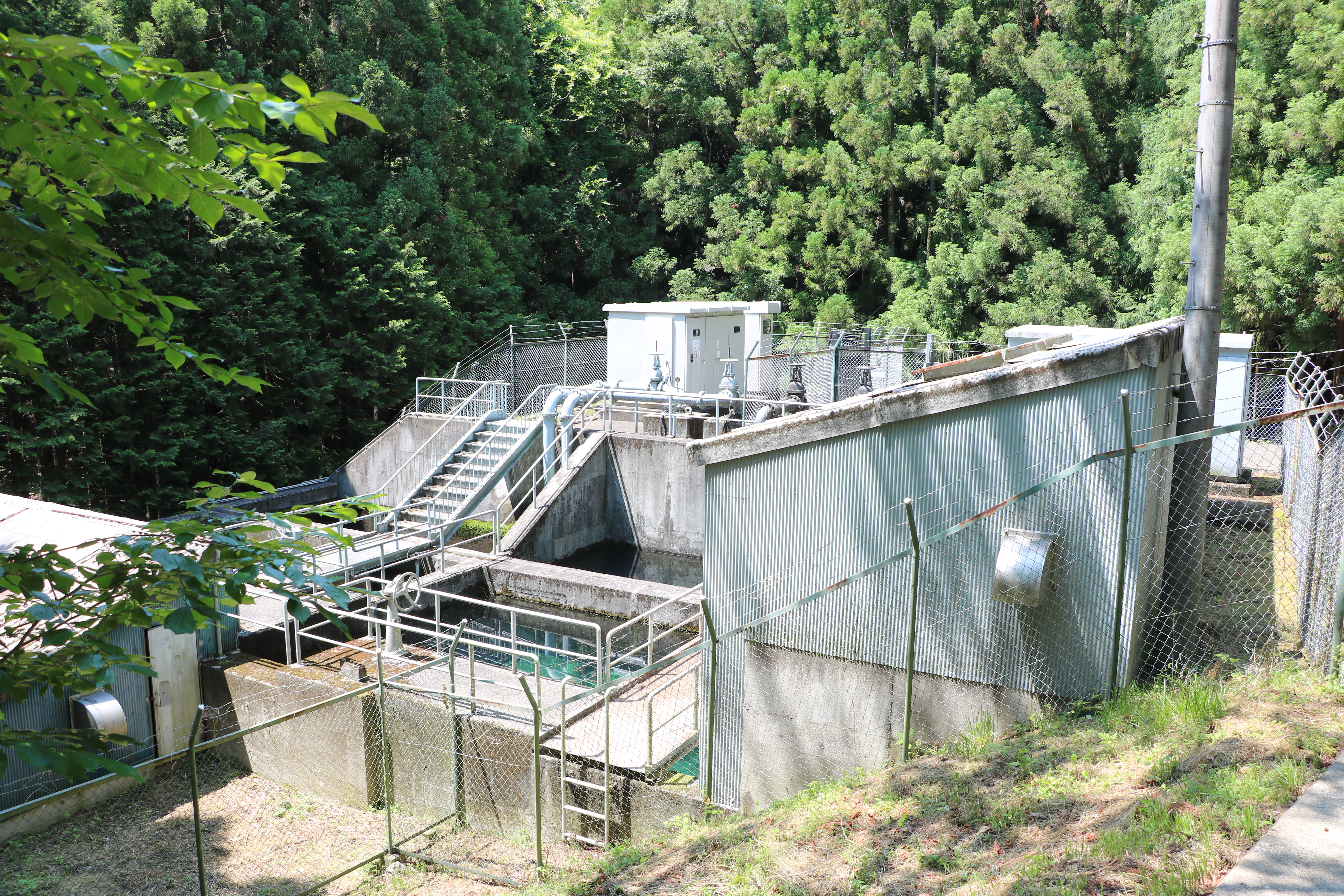 Yagisawa water pumping facility